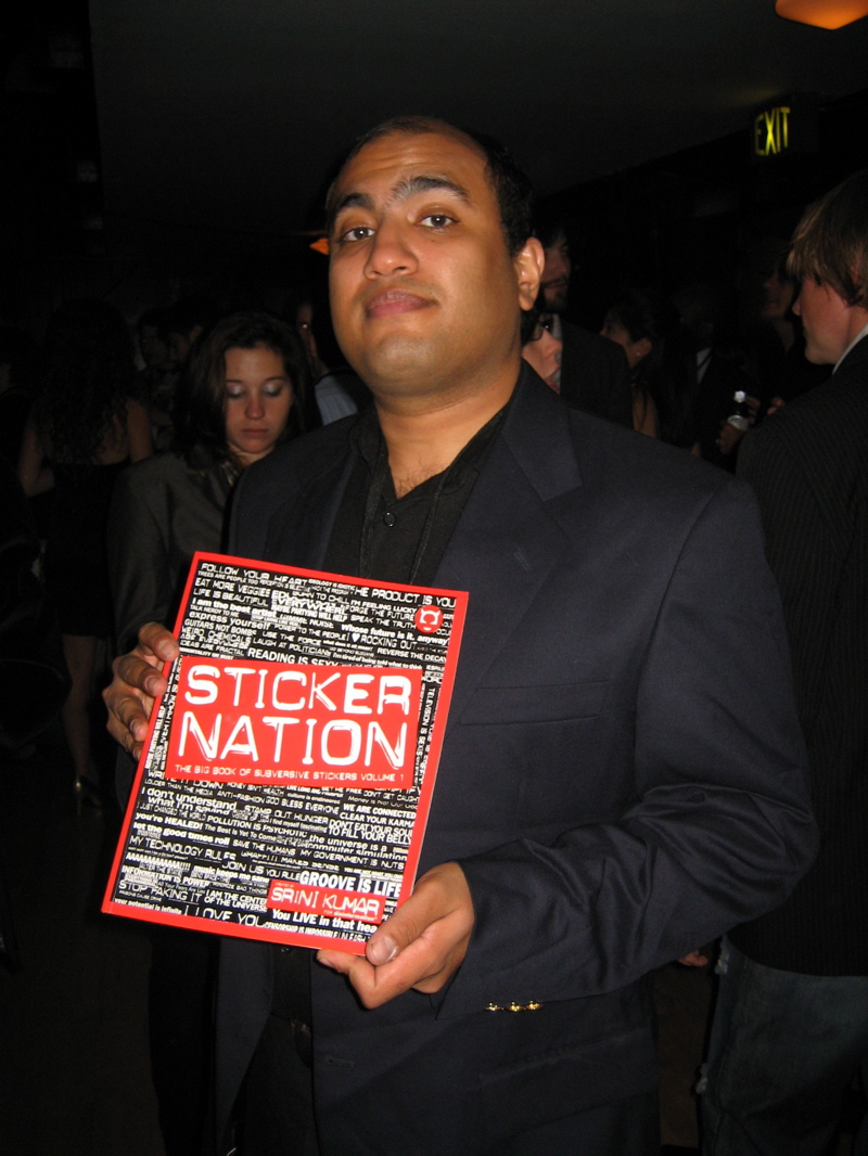 at the holding a copy of his personal compendium, Sticker Nation